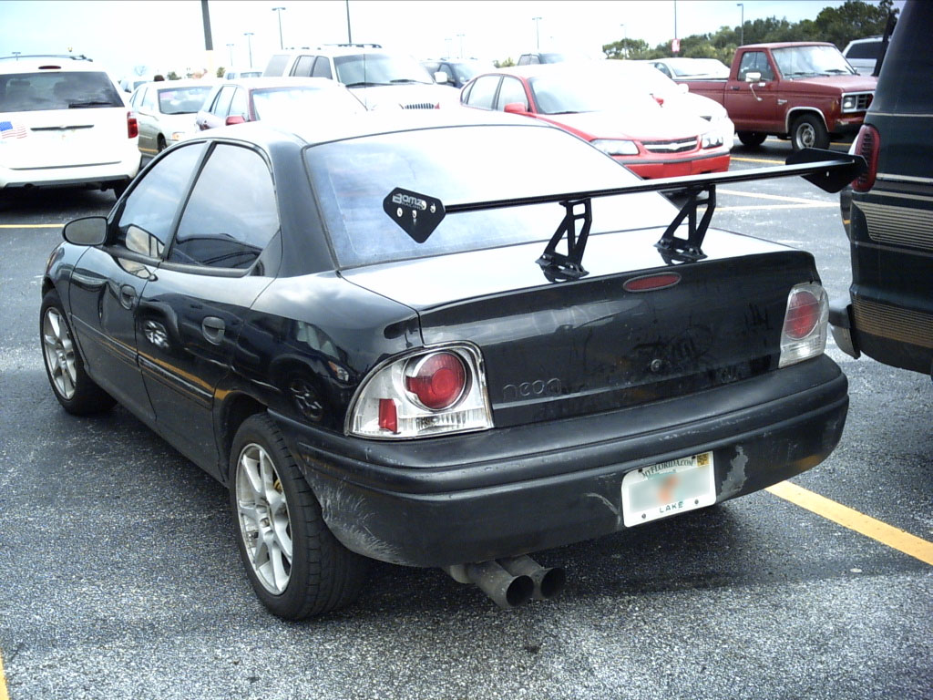 Typical "riceburner" Dodge Neon, including Altezza taillights, ineffective spoiler, and parked at an angle in a public parking lot.